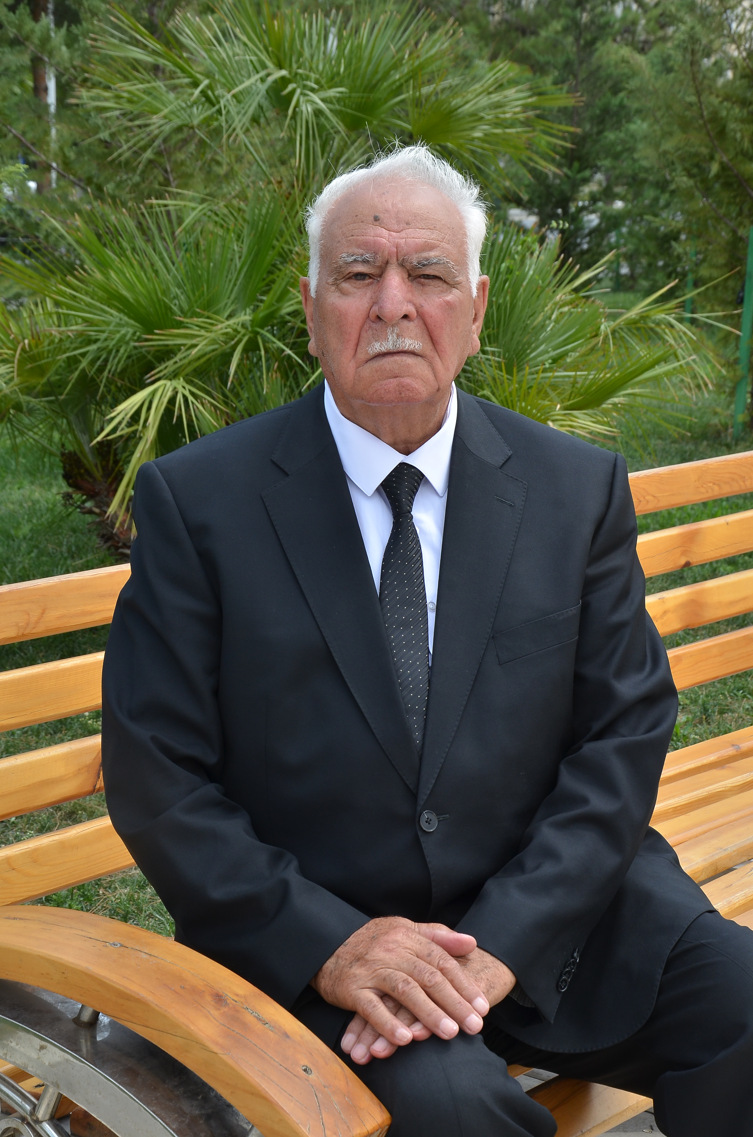 Sumqayıt Dövlət Universitetinin müəllimi